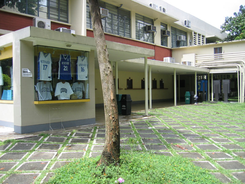 Xavier Hall in the Ateneo de Manila University.